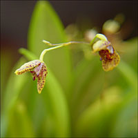 A Brazilian micro-orchid, Pleurothallis fusca. (identified by: User:Dalton Holland Baptista)